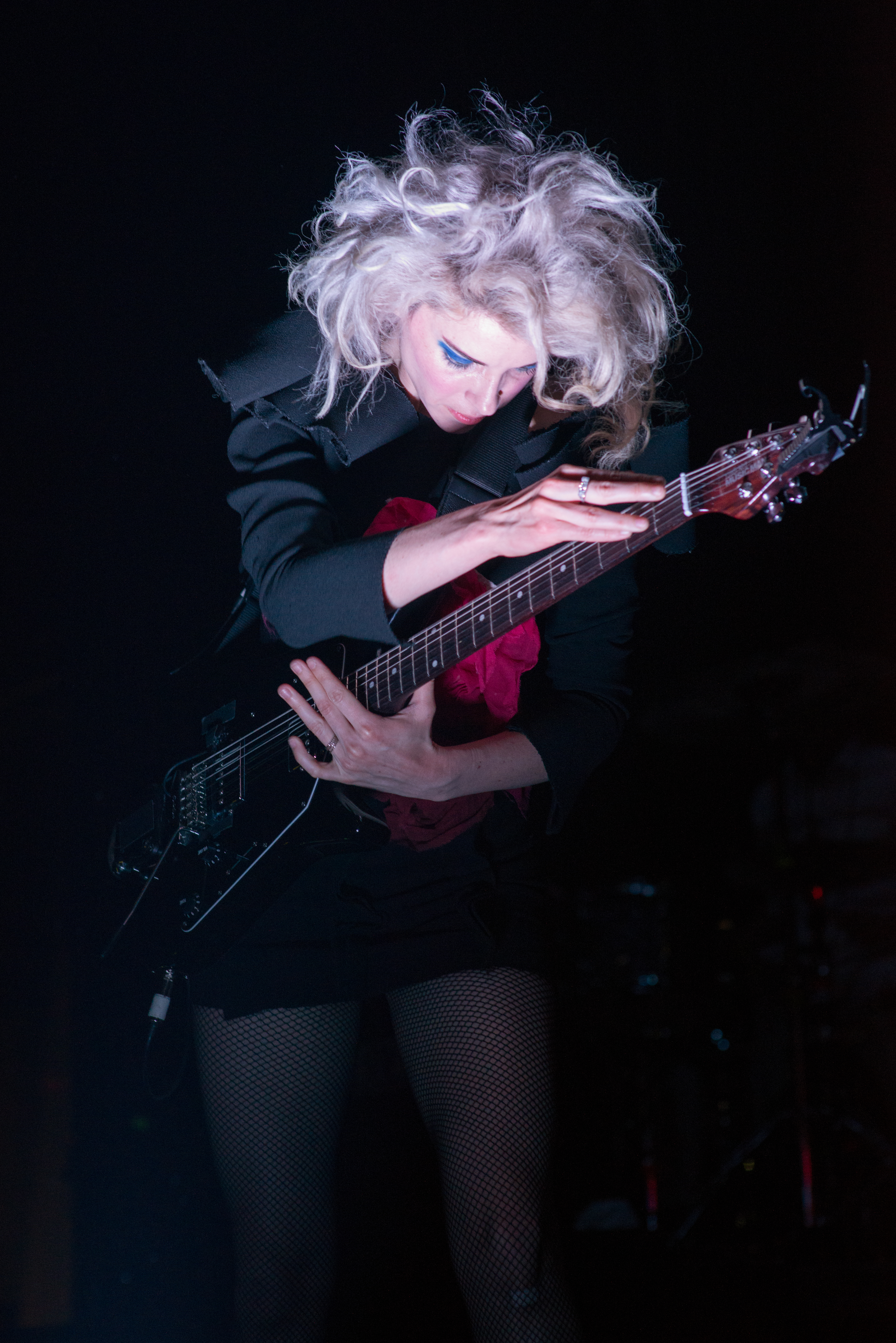 St. Vincent performing in San Diego, California in 2014